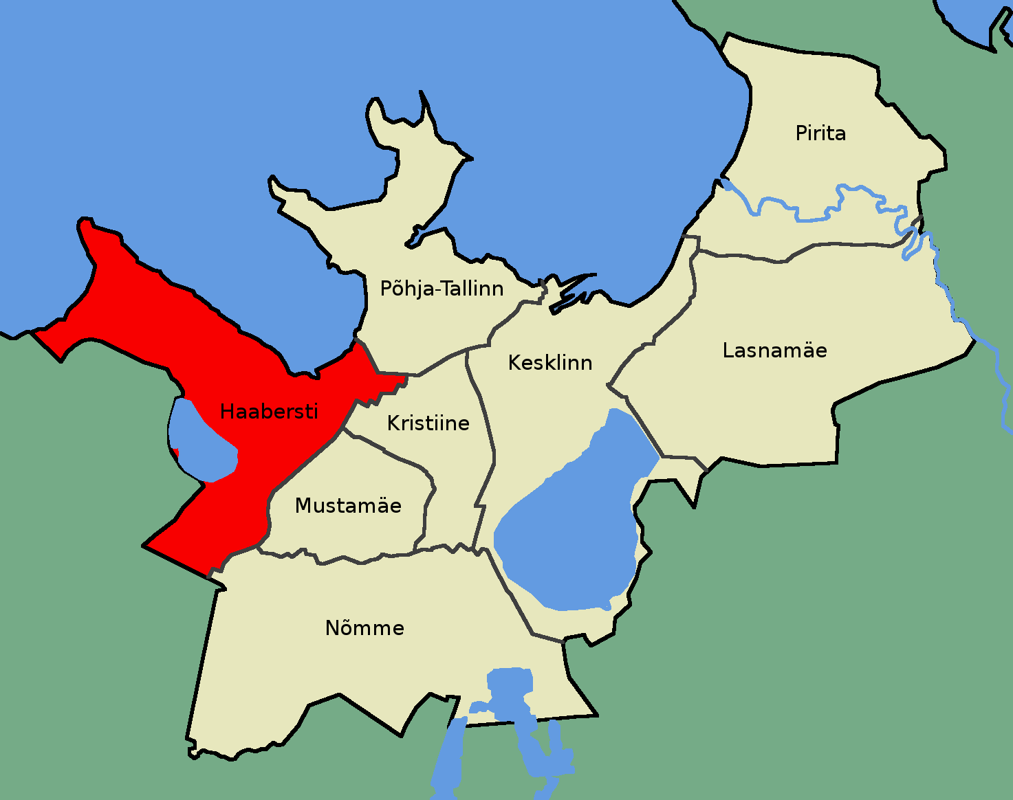 Tallinn (Estonia), the city district of Haabersti, with legend